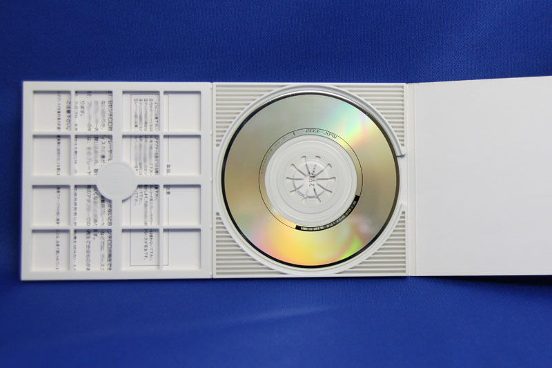 8cm CD single (jacket opened) in Japan